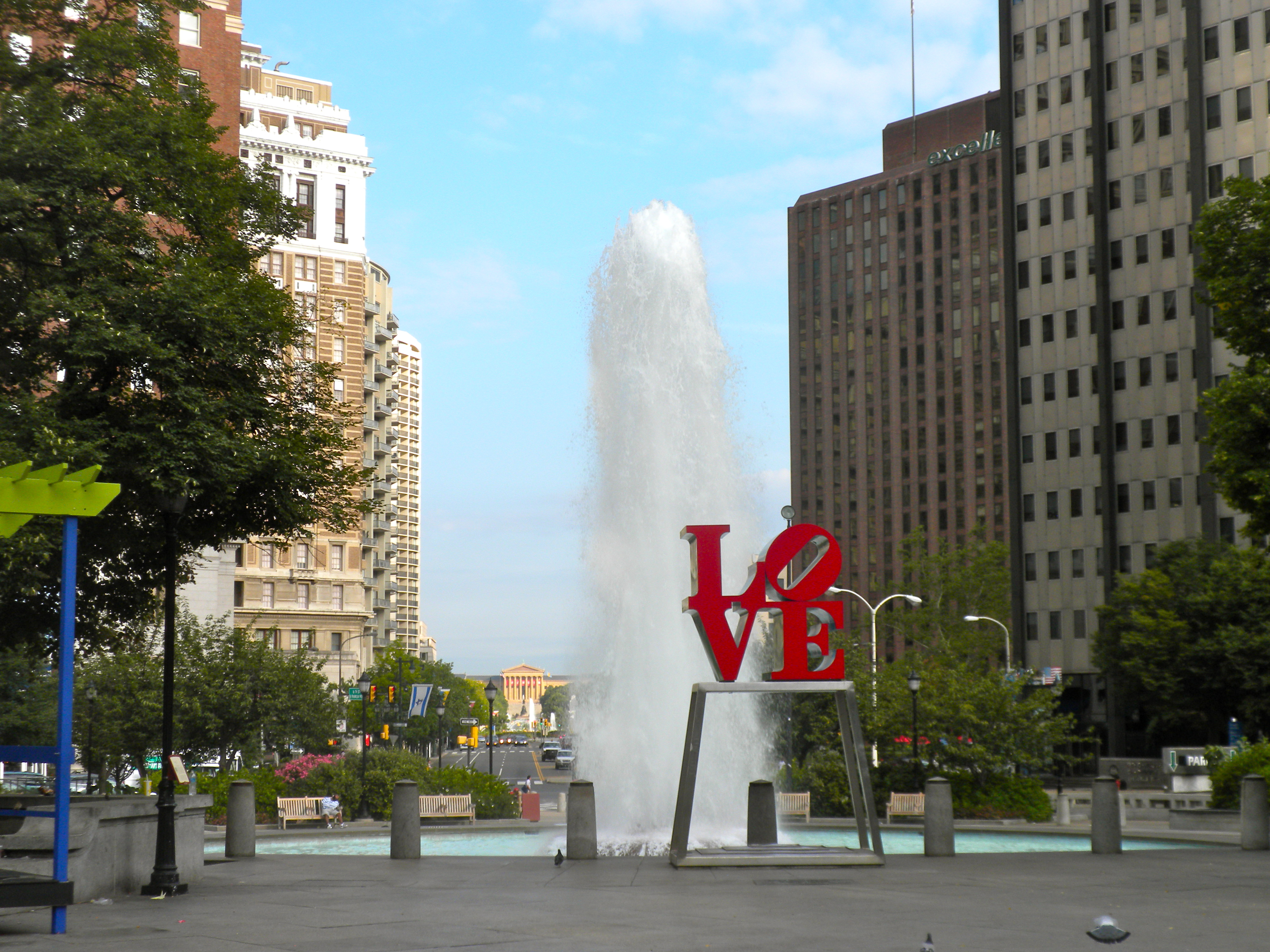 LOVE Park in Philadelphia (JFK Plaza), just NW of City Hall, showing Franklin Parkway in the background leading up to the Art Museum, the LOVE sculpture, fountain, park, etc.